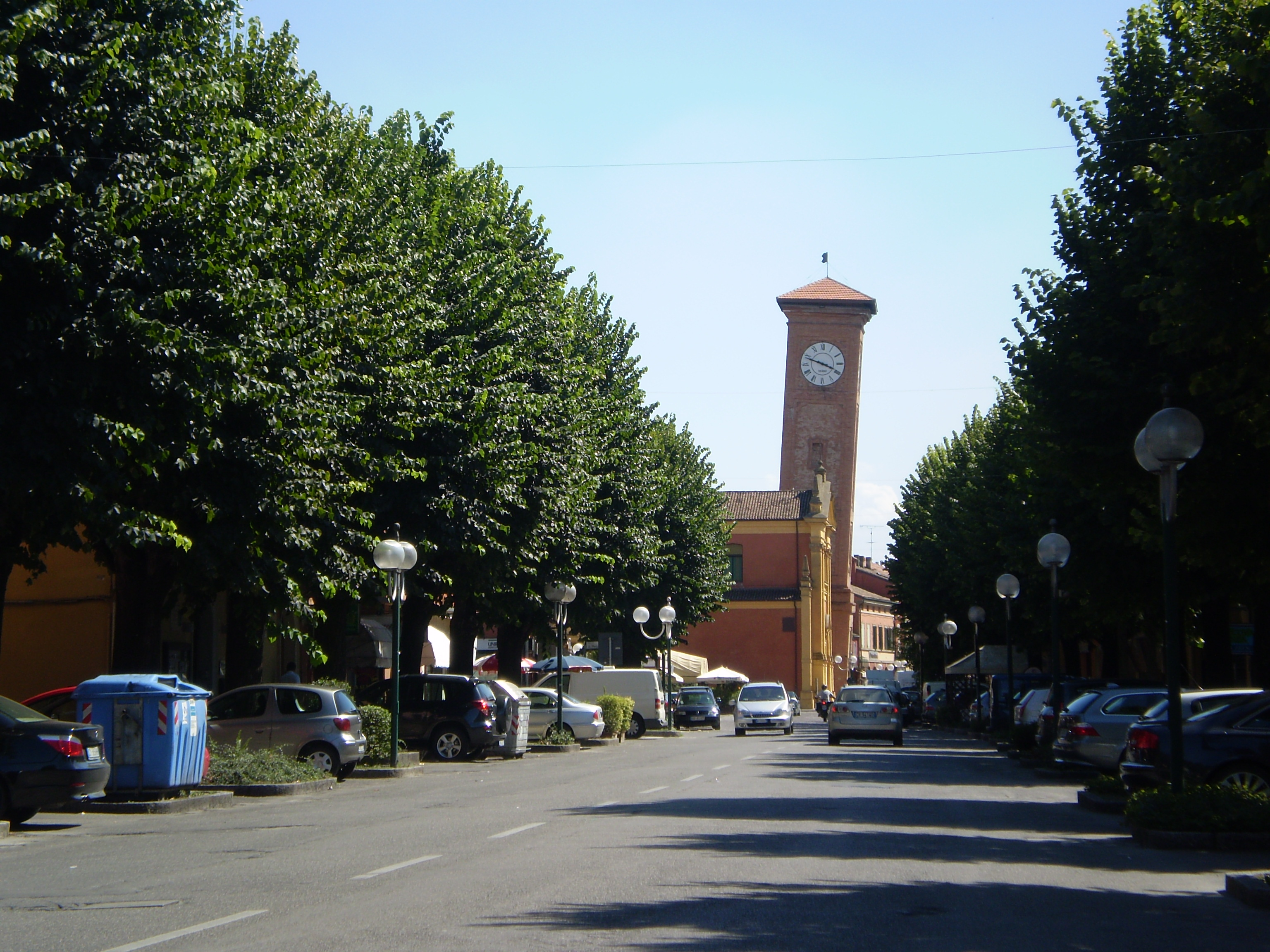 Via Mazzini, Molinella (BO)